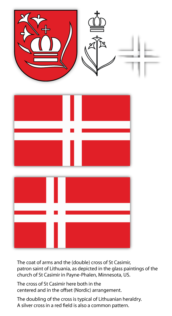 St Casimir, the cross coat of arms, cross and flag of St Casimir